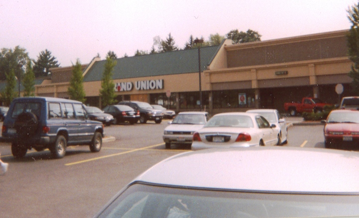 Former Grand Union in Glenmont, NY. Now Marshalls and Famous Footwear.